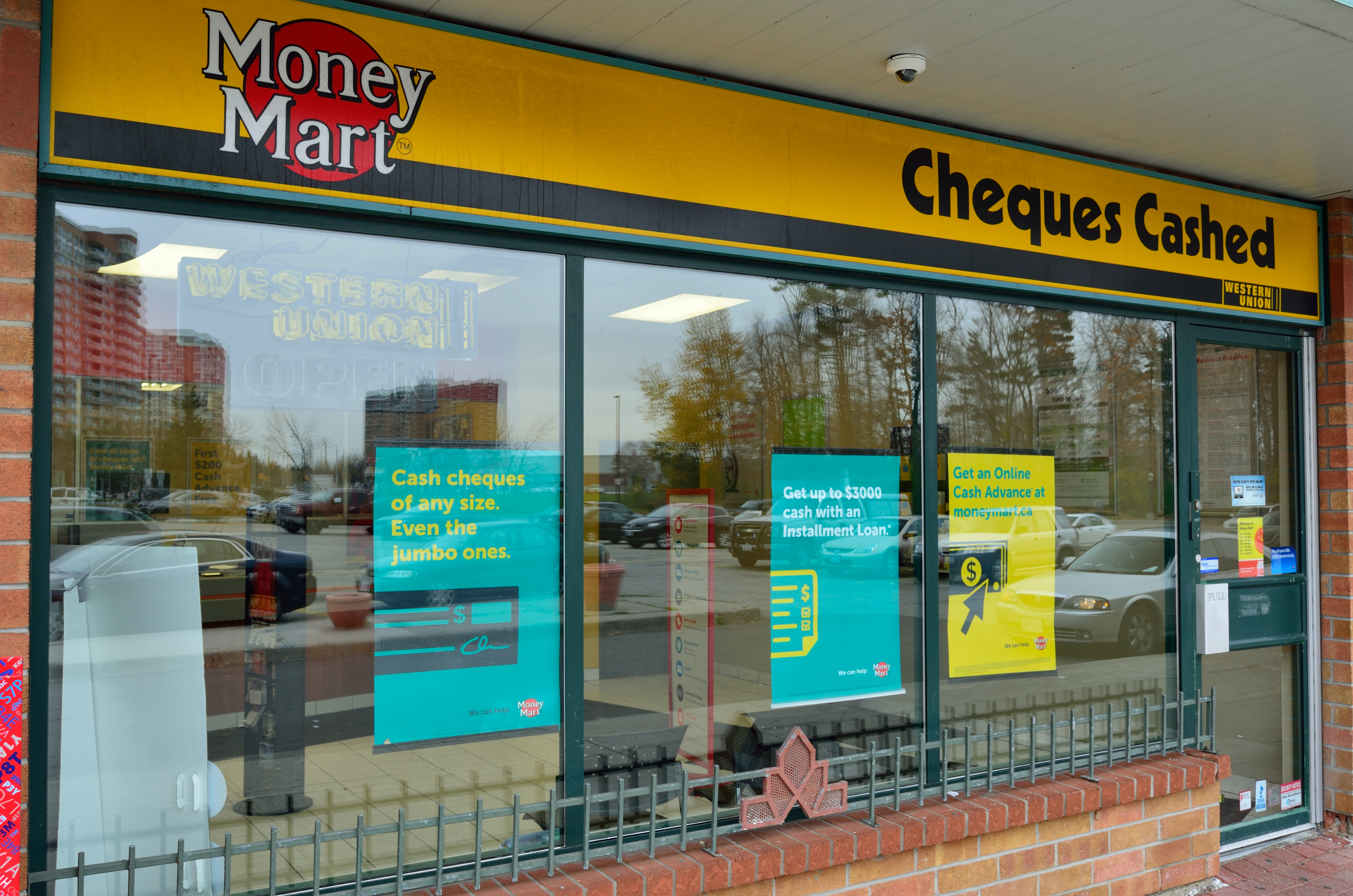 Money Mart at Malvern Town Centre.